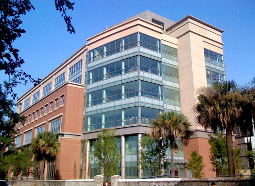 Picture of the dental clinics building at the Medical University of South Carolina